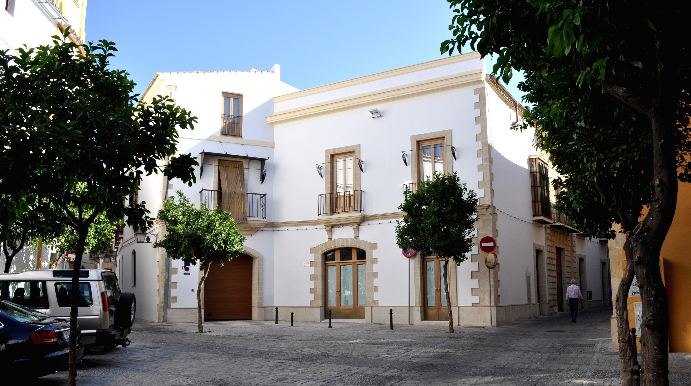 Saint Angel Square, Jerez de la Frontera.